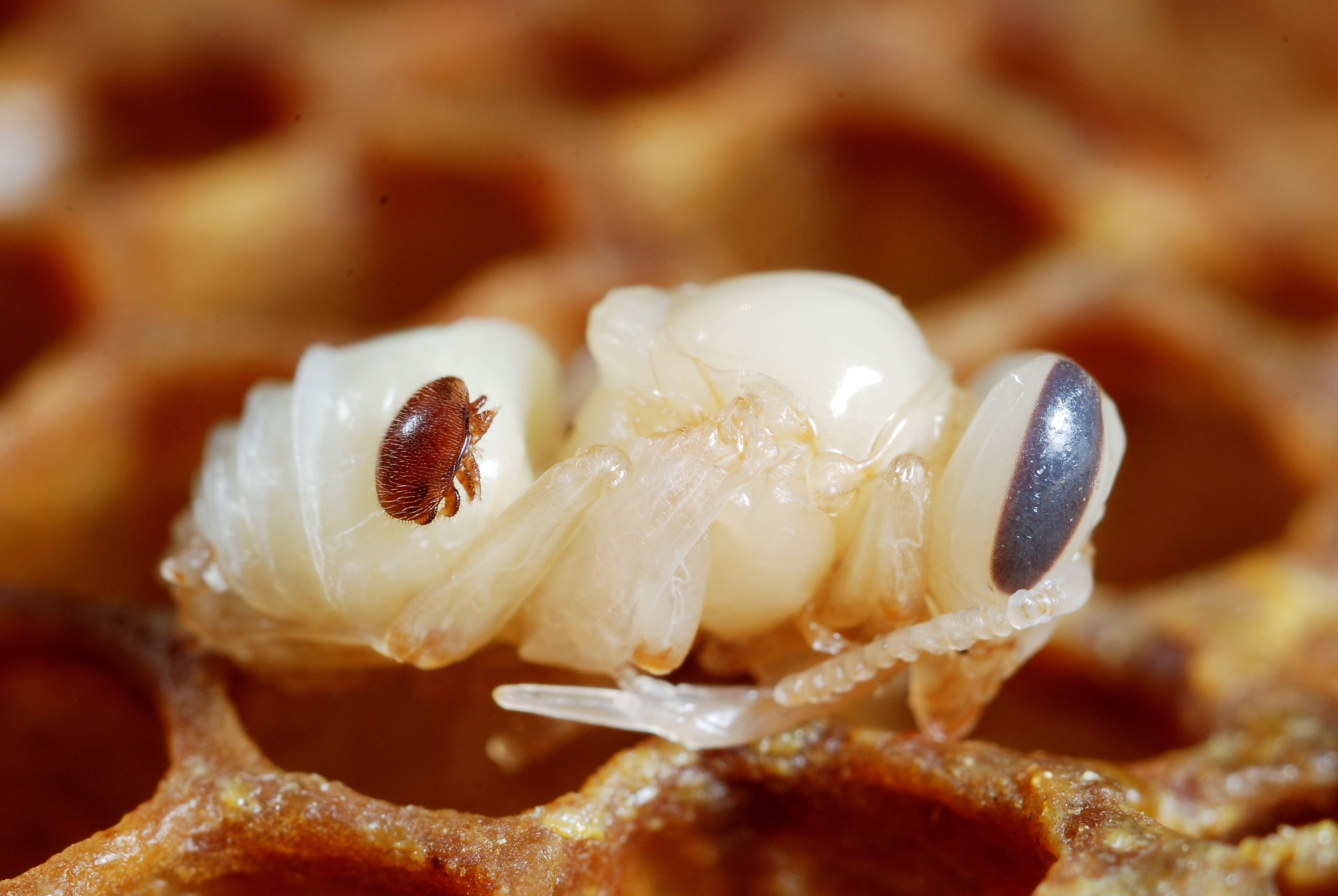 The parasite mite Varroa destructor (adult female) on the body of its host : a bee nymph (honeybee - Apis mellifera).